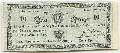 (Austro-)Hungarian multilingual money bill issued in 1849.